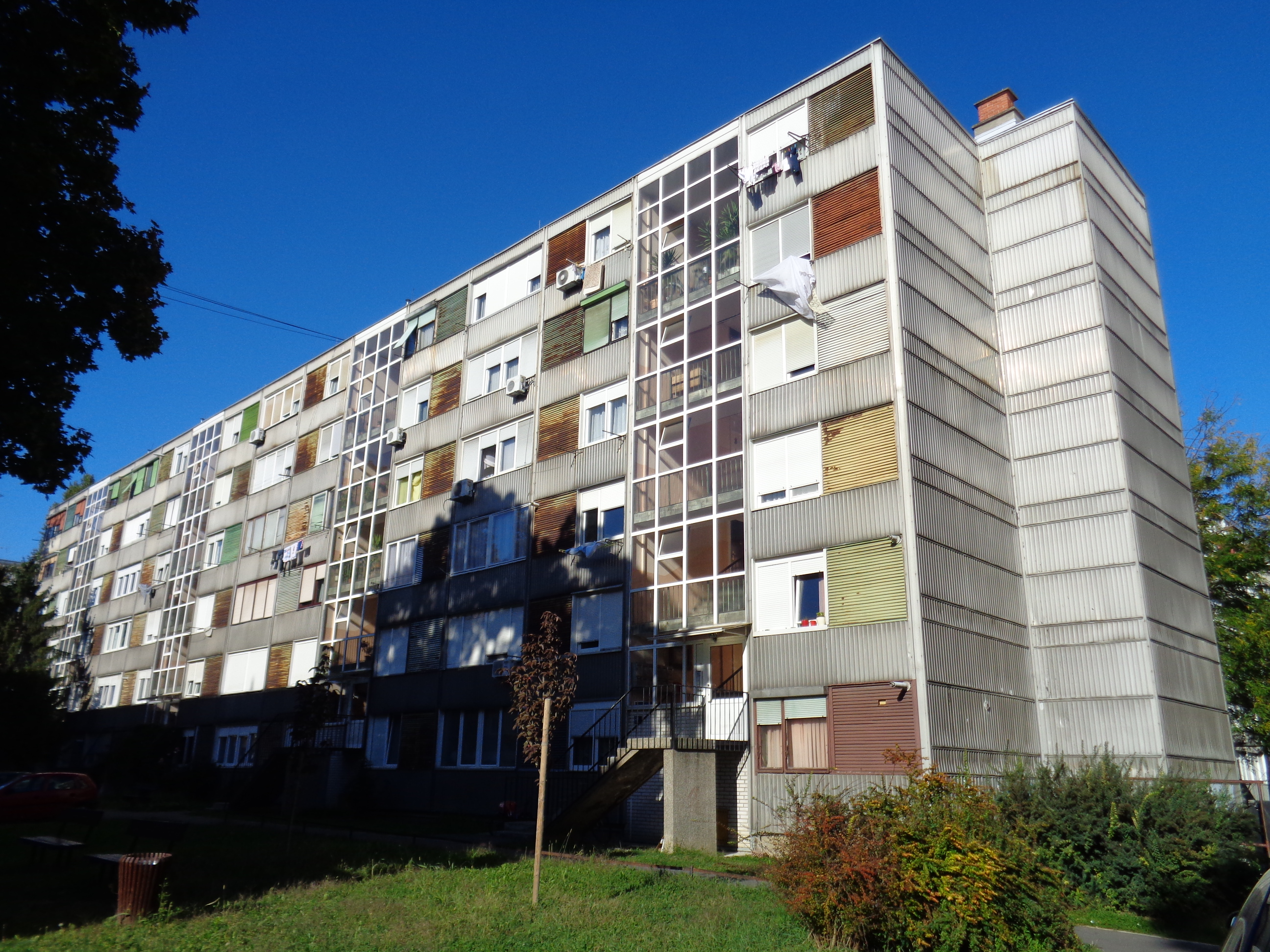 Apartment building in the Borongaj Quarter, Peščenica-Žitnjak District, City of Zagreb, Croatia